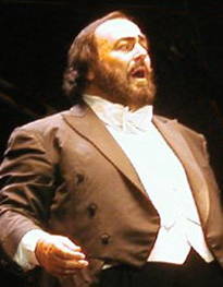 Luciano Pavarotti in Vélodrome Stadium, 15/06/02. Cropped version.